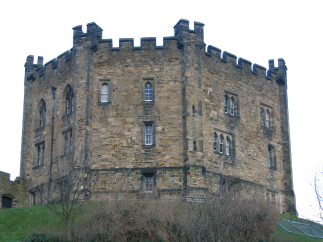 Durham Castle.